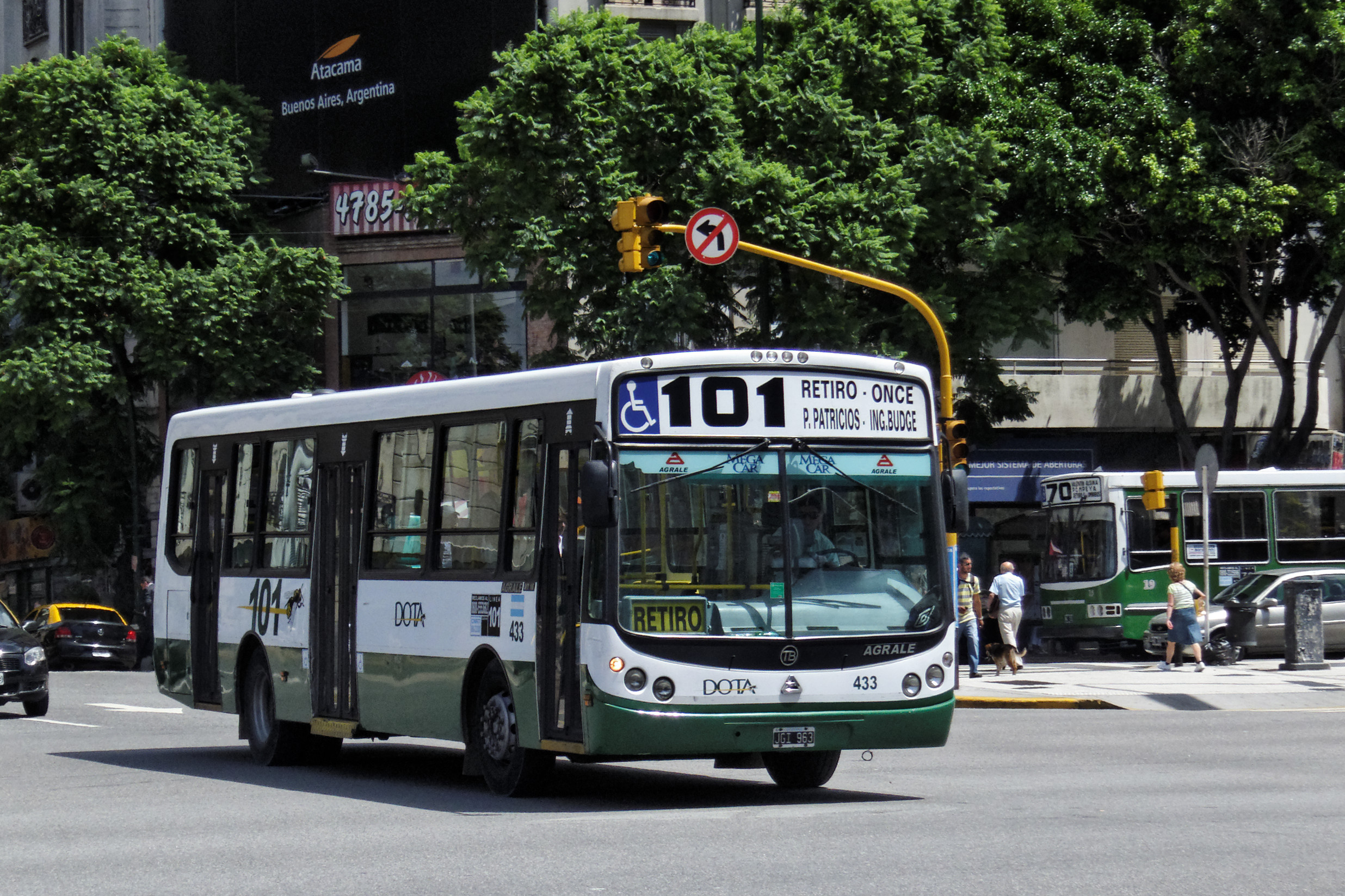 Todo Bus bus (reg. JGI 963, #433) with Agrale MT 15 chassis in Buenos Aires, Argentina. Colectivo, line 101, Doscientos Ocho Transporte Automotor S.A. (D.O.T.A.) operator.